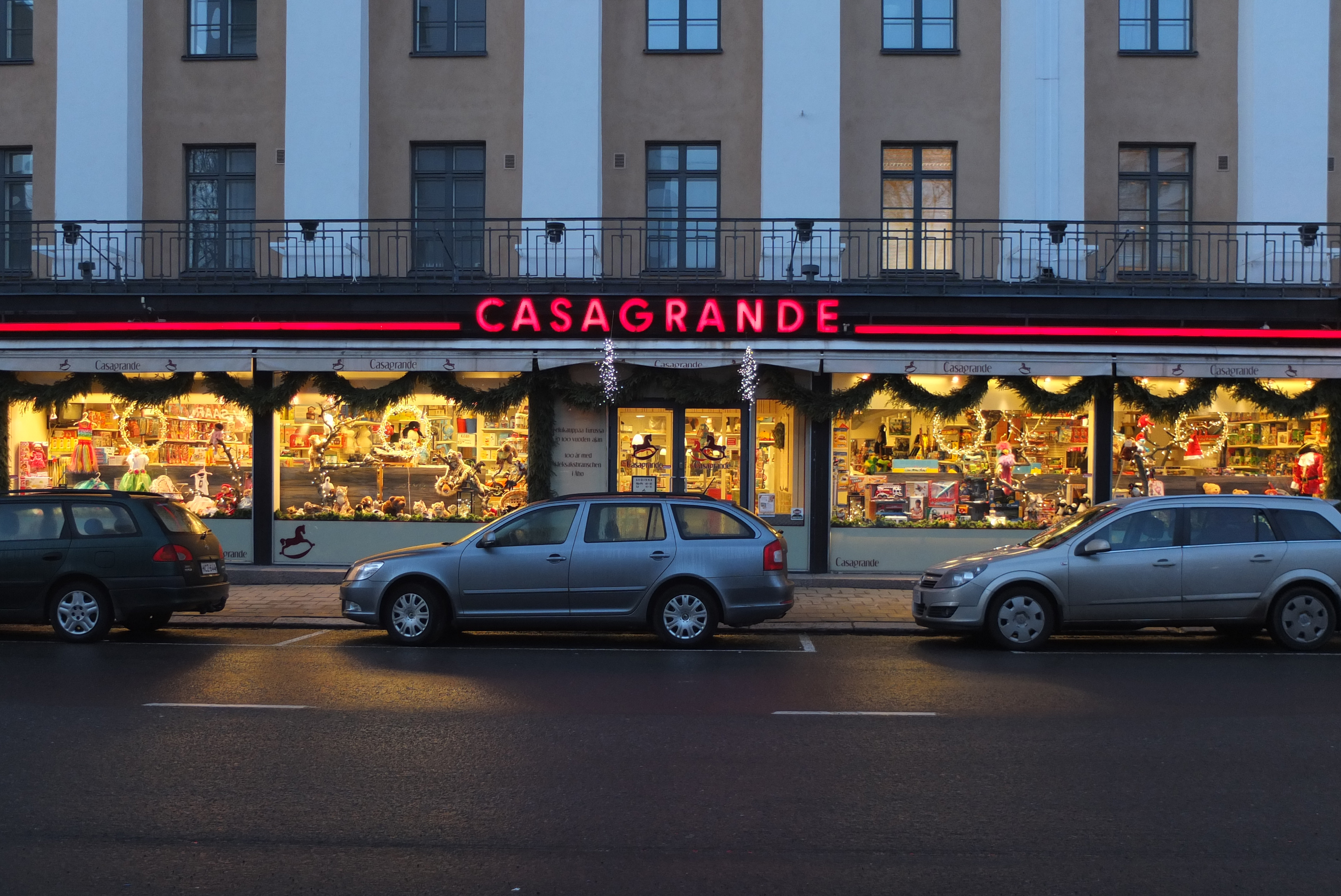 The toy shop Casagrande, started by Antonio Casagrande in 1911, has been operating in the same address, Linnankatu 9–11 (the Regina building), since 1930.